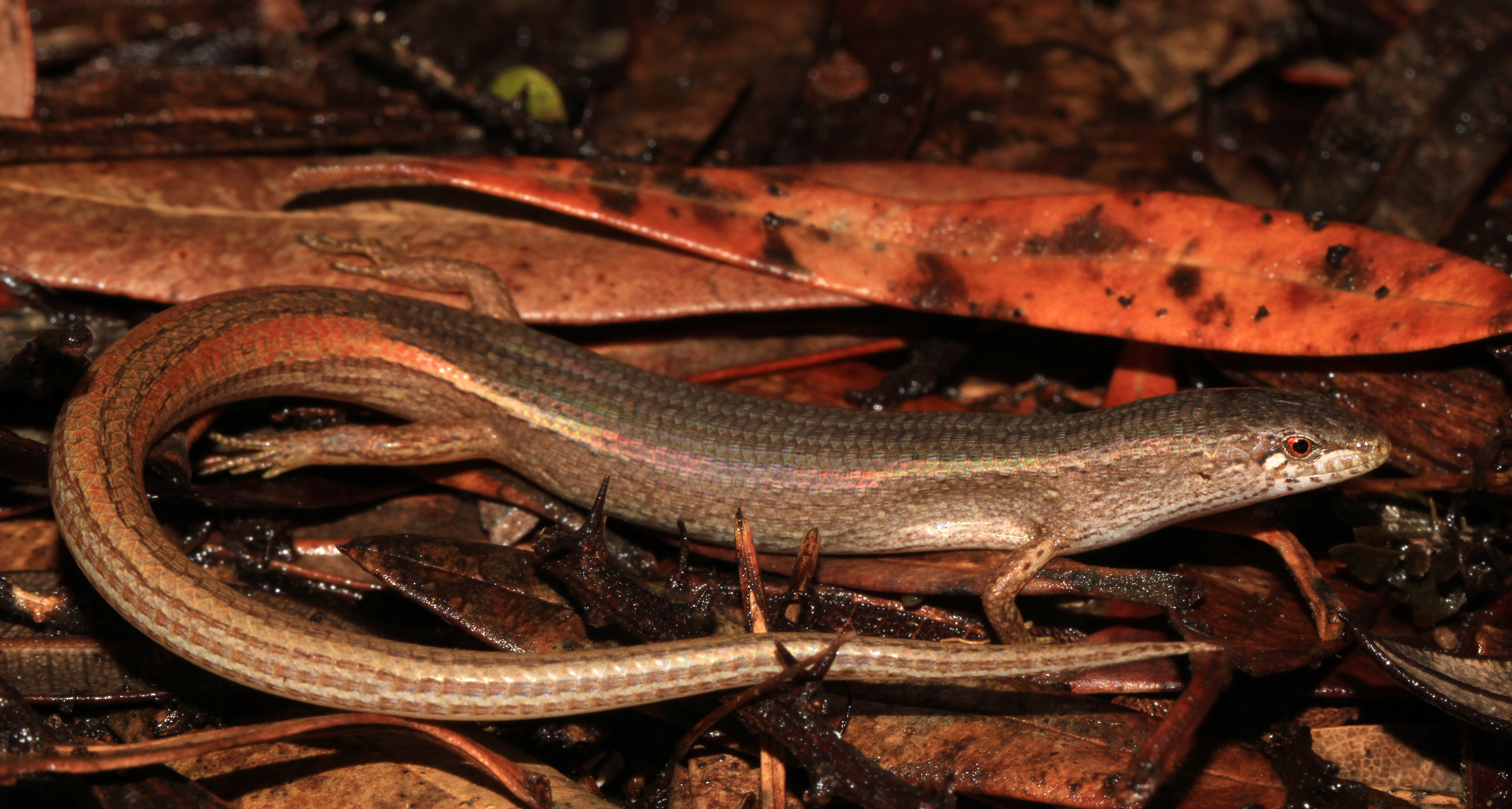 Mornington Peninsula, Vic.